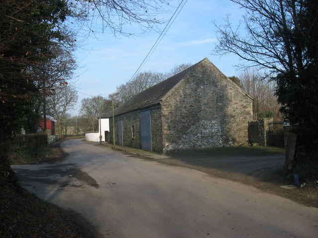 Old church at Killanny, Co. Louth The barn church of 1798 was, like its medieval and Early Christian predecessors, dedicated to St. Ultan. It is now used as a store but retains many original features. To the right of the church is the gateway to the graveyard where some remnants of the medieval church survived into the 20th century.